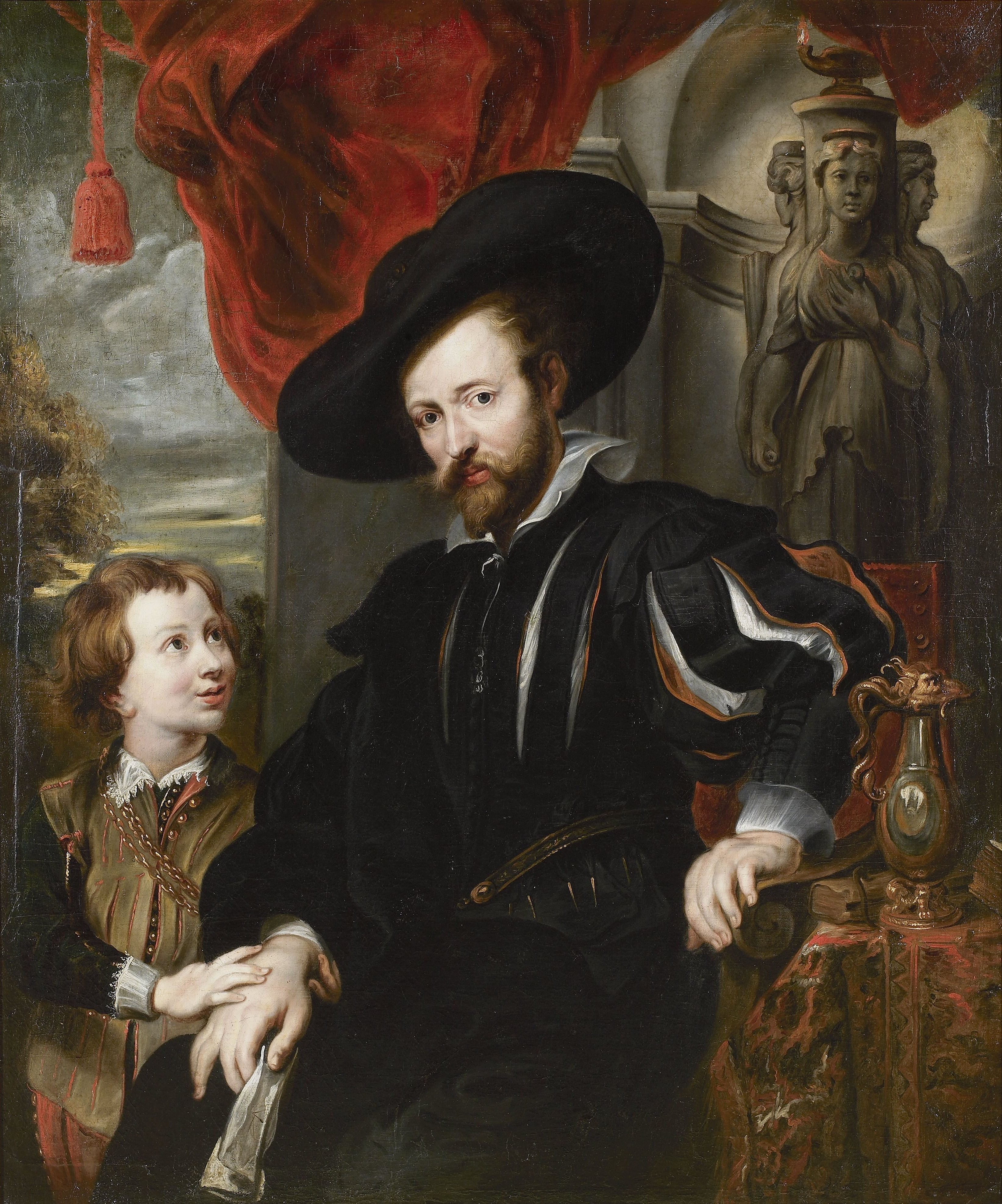 Portrait of Peter Paul Rubens with his son Albert. copy from the lost original of the late 1610s